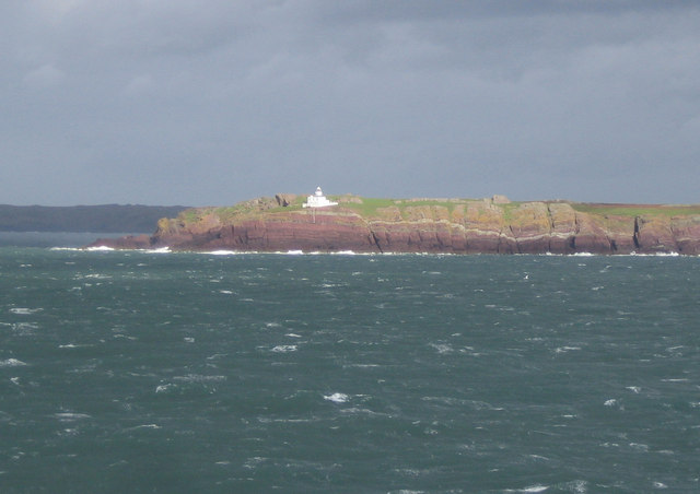 Skokholm Island: Lighthouse Built in 1916 near Quarry Point on Skokholm Island the light in the tower is visible for about 20 miles. The rock strata in the cliffs are very prominent.